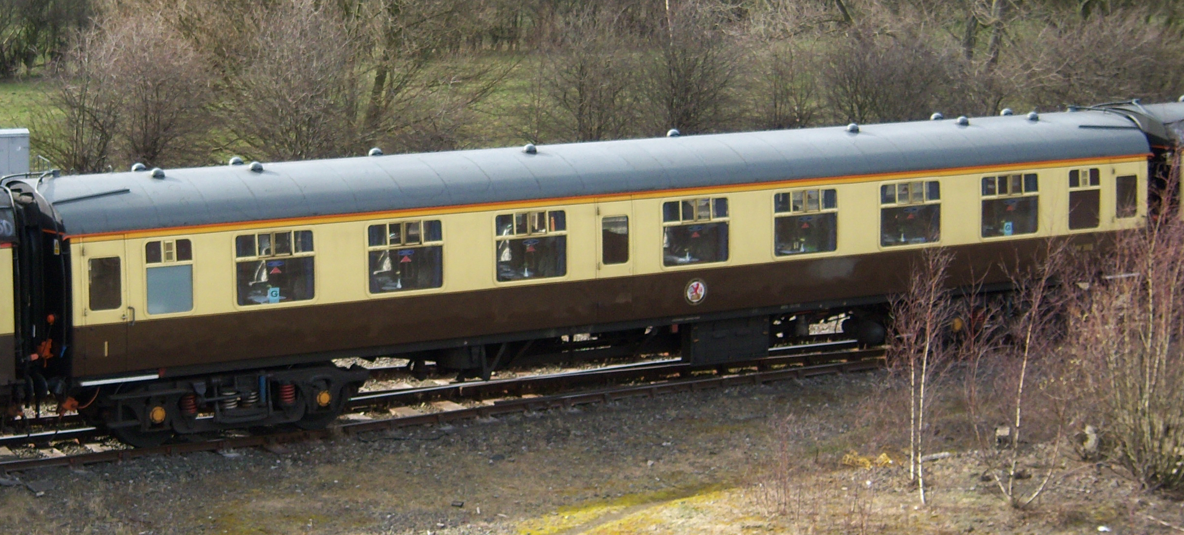 First class railway carriage used on the Tyne Tornado railtour pictured empty in Tyne Yard, Gateshead, England.